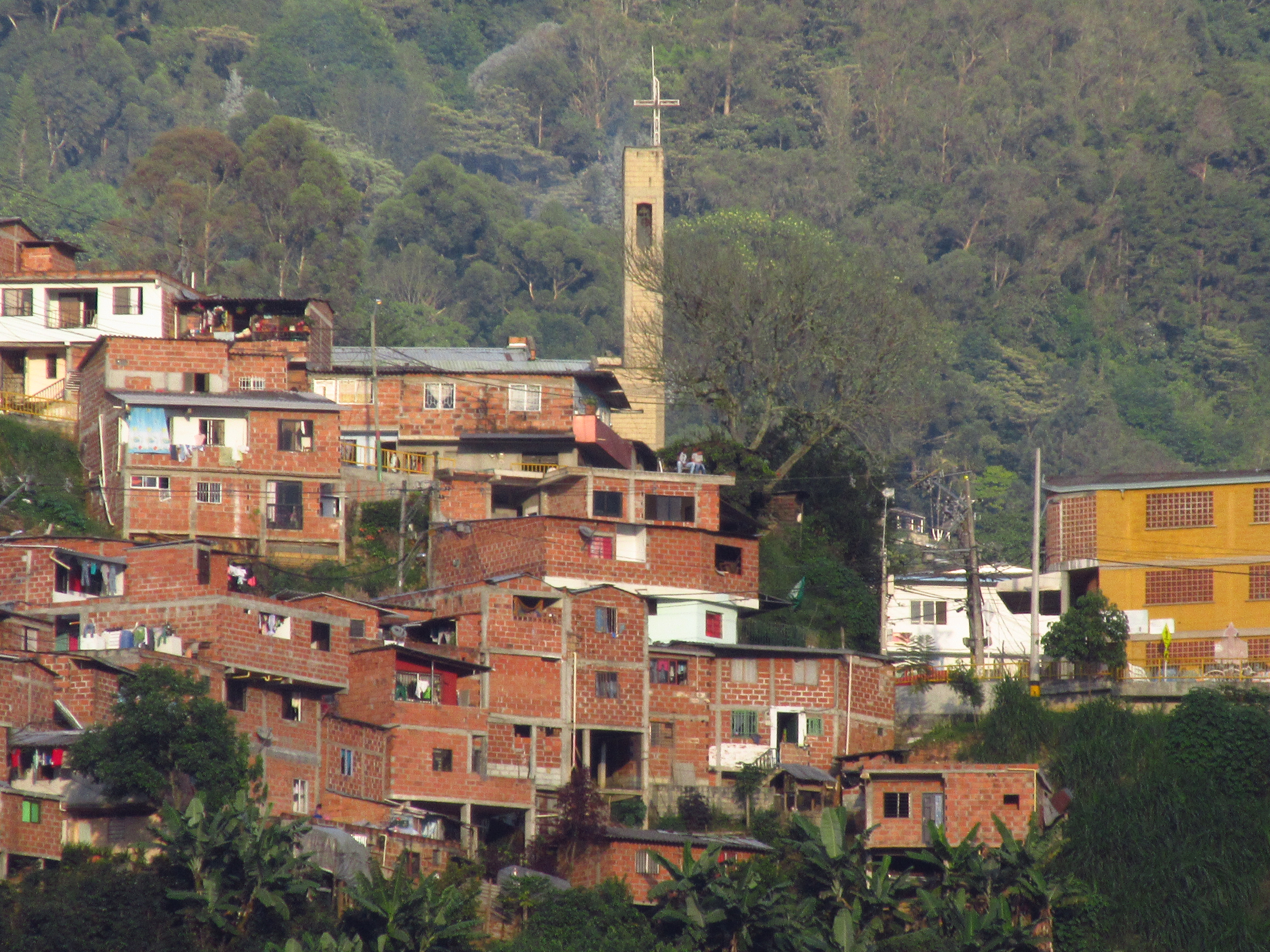 Iglesia Santa María de La Sierra de la Comuna 8. Comunas de Medellín.